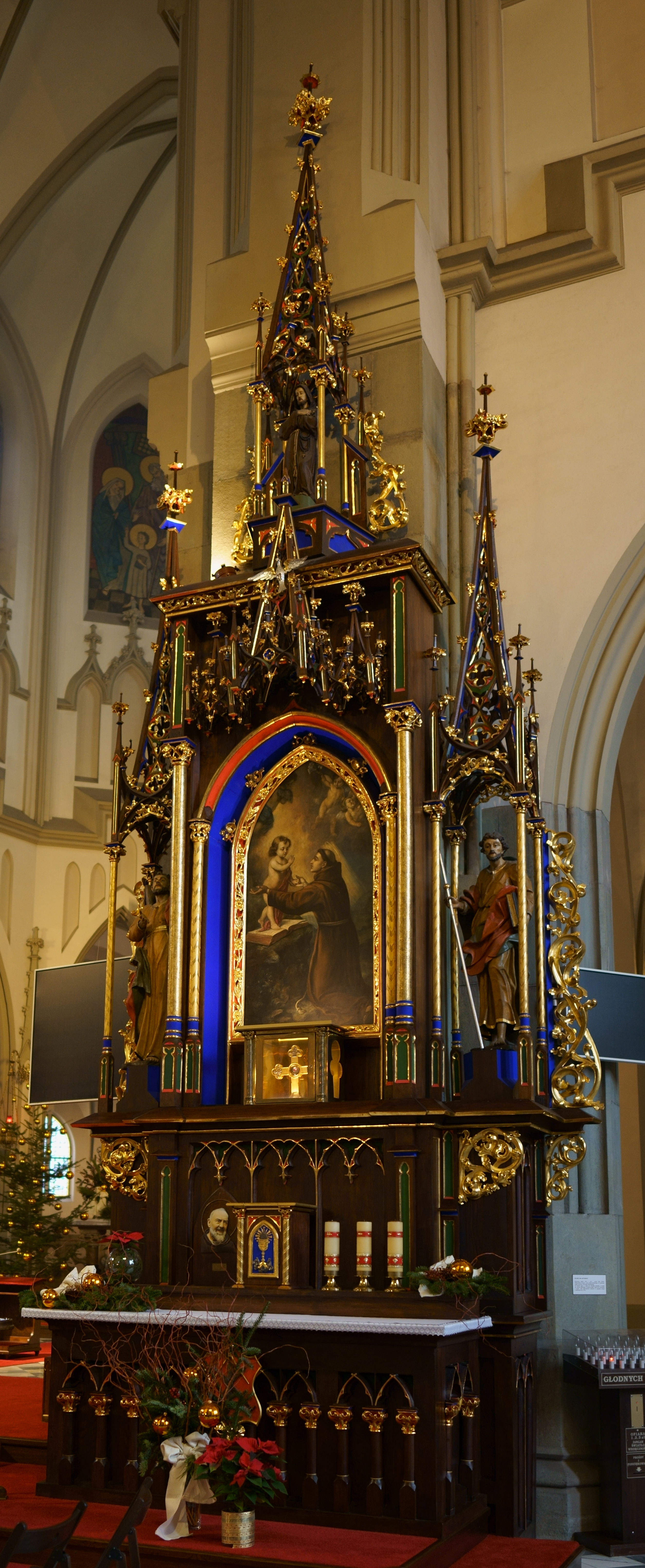 Church of St Joseph altar of St. Anthony 2 Zamoyskiego street Podgorze Krakow Poland. Co-author Wit Wisz